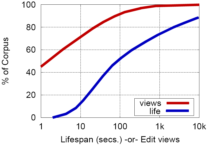 Wikipedia damage survival (time and views)